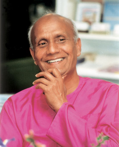 Sri Chinmoy